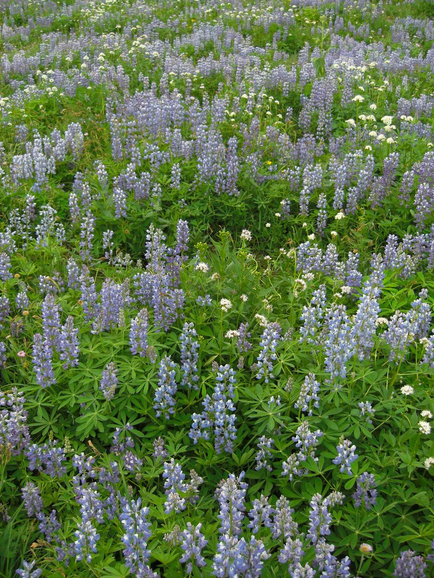 Lupinus arcticus ssp. subalpinus on Table Mountain, Wells Gray Park, BC, Canada